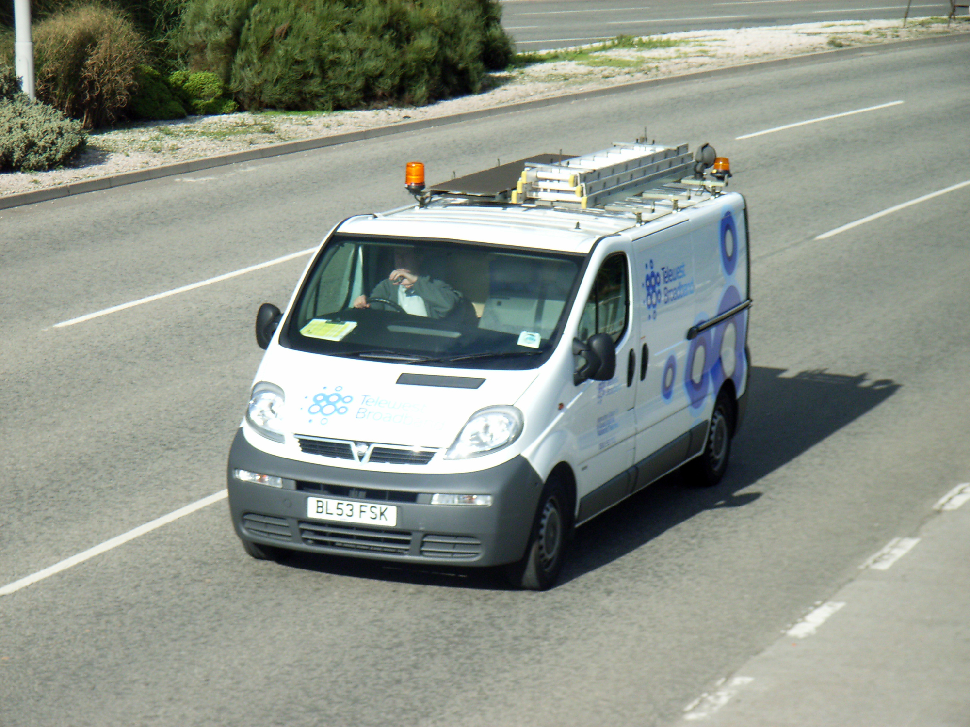 Marsh Mills Plymouth 24 October 2006. NTL Telewest Broadband Vauxhall VAUXHALL VIVARO 2900 DI LWB PANEL VAN 1870cc (28/01/2004) DIESEL MANUAL